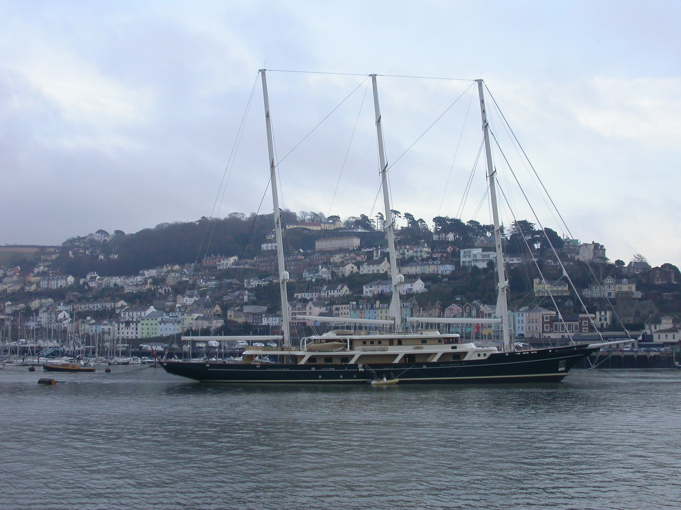 Starboard-profile view of the sailing yacht Eos in Dartmouth Harbour with the colourful houses of Kingswear in the background